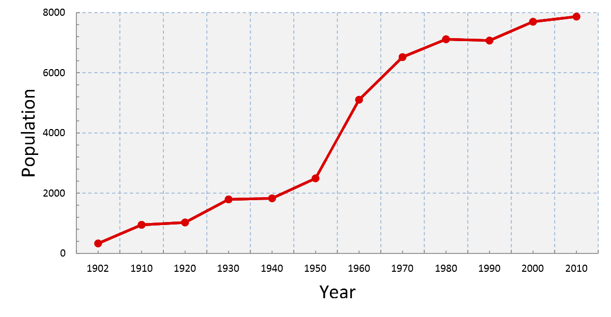 Population of Briarcliff Manor from 1902 through to 2010.